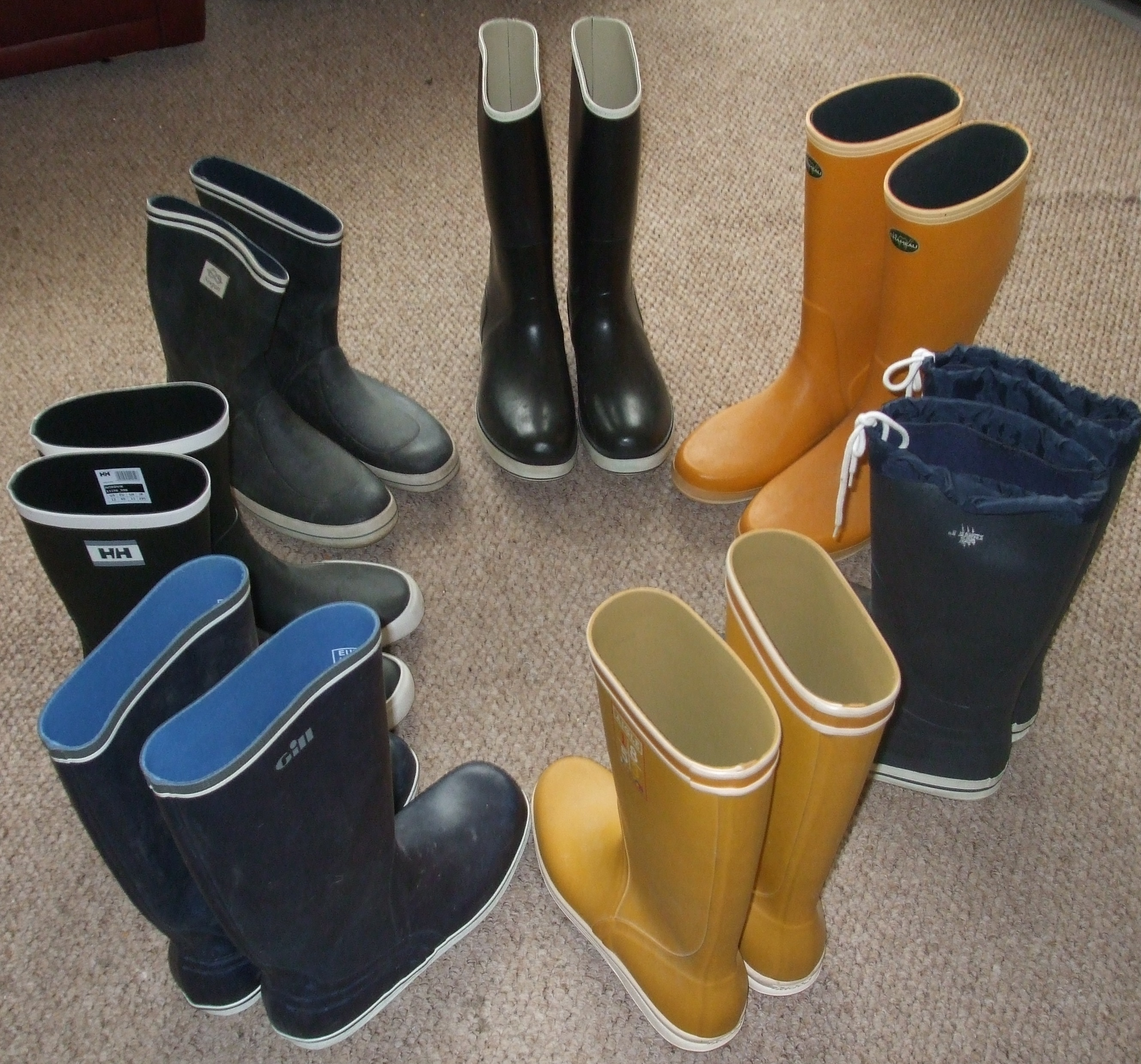 This image illustrates seven pairs of rubber sailing boots. Clockwise from the top: 1. Sperry Top-Sider tall black sailing boots. 2. Le Chameau tall yellow sailing boots. 3. Jeantex tall navy sailing boots. 4. Aigle tall yellow sailing boots. 5. Gill tall navy sailing boots. 6. Helly Hansen short navy sailing boots. 7. Newport short navy sailing boots.